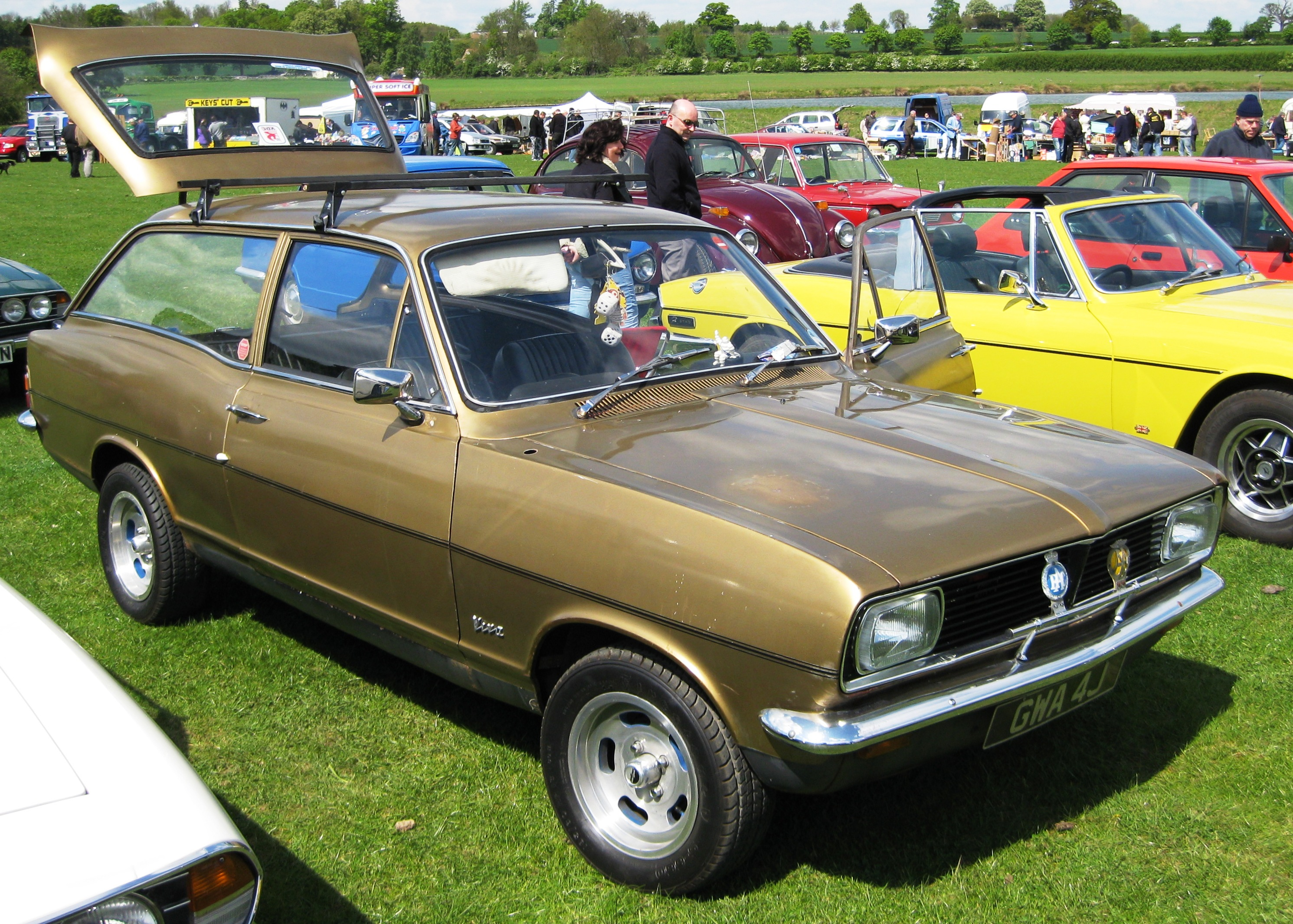 1970 Vauxhall Viva HB estate